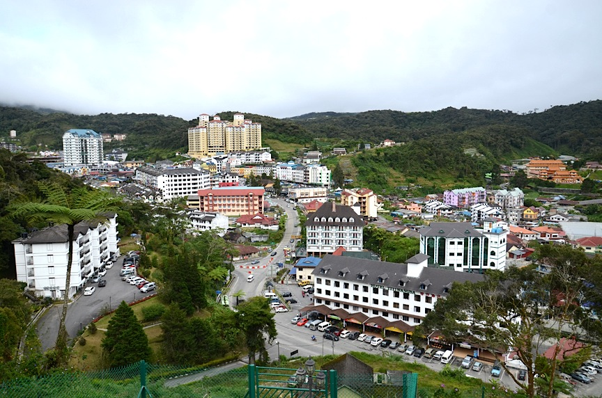 The township of Brinchang, Cameron Highlands, Pahang, West Malaysia. Author: See Kok Shan